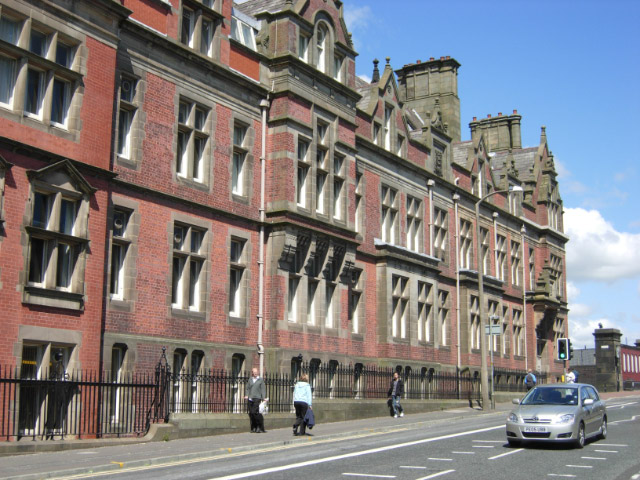 Lancashire County Hall, Preston This imposing building stands on Fishergate just west of the railway bridge. Although Lancaster is considered the county town, modern Lancashire is administered from here in Preston.